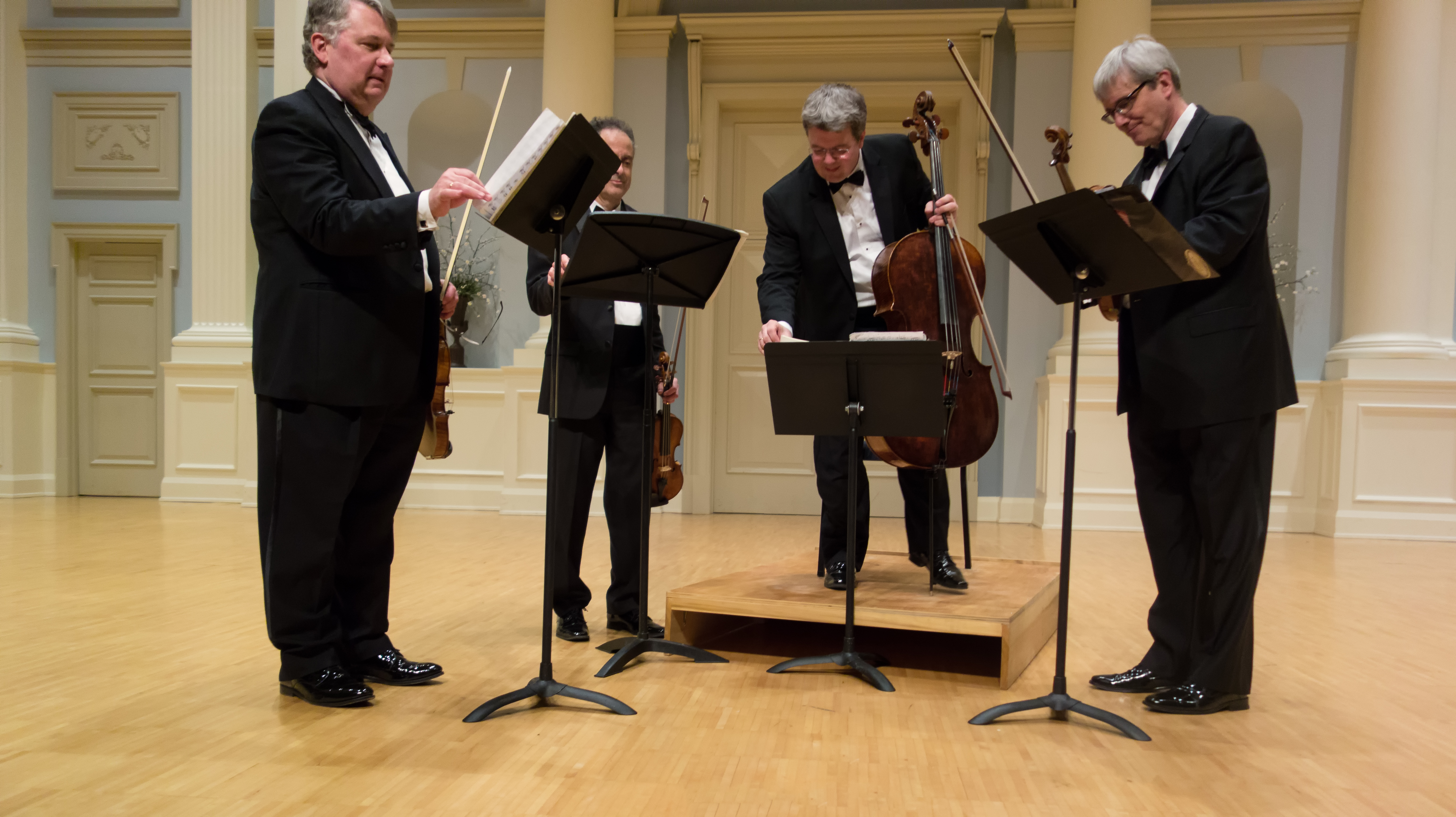 The Emerson String Quartet (L to R) Philip Setzer, violin Eugene Drucker, violin Paul Watkins, cello Lawrence Dutton, viola